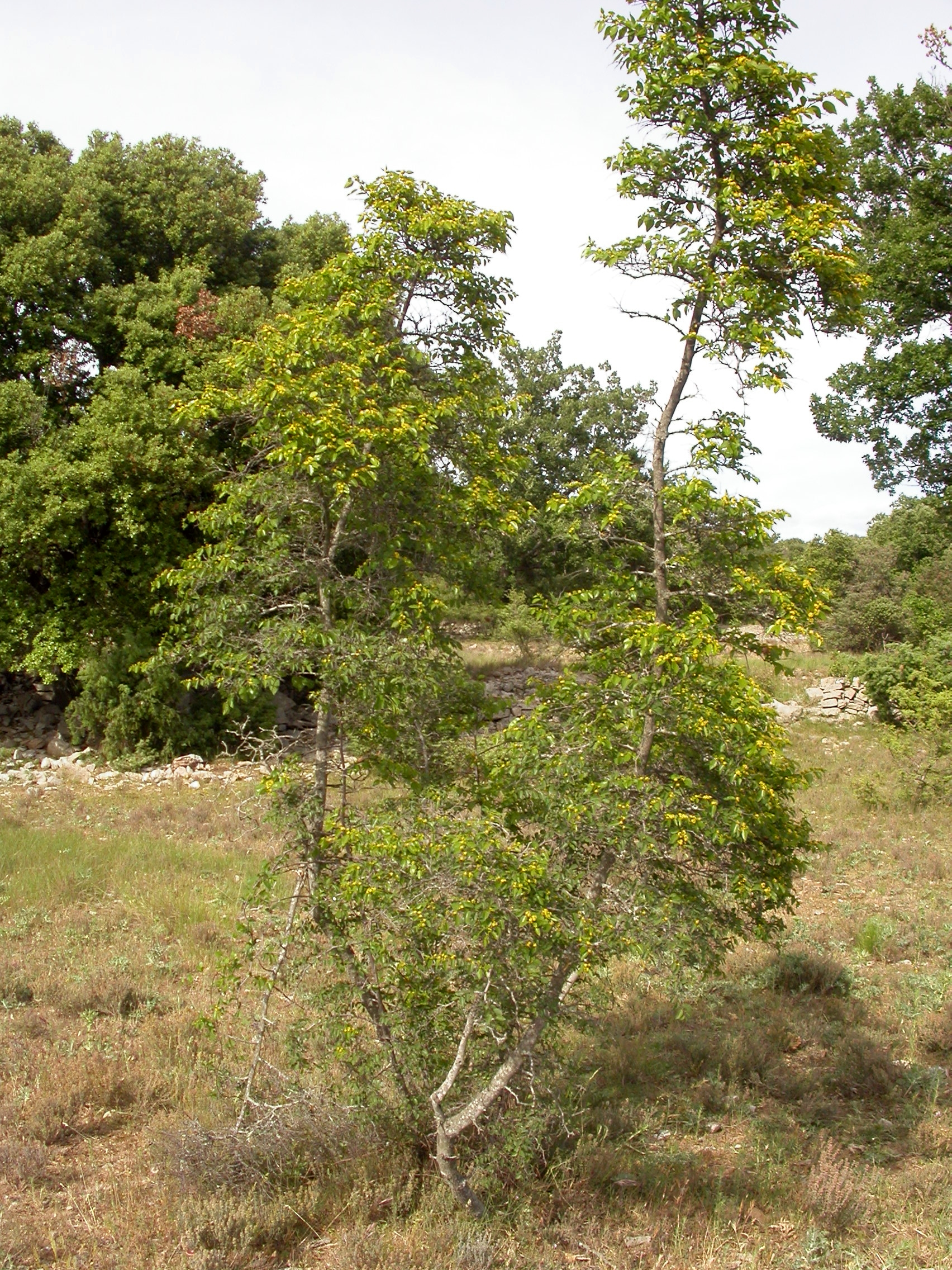 Jerusalem Thorn or Christ's Thorn (Paliurus spina-christi), Frouzet, Languedoc-Roussillon, France